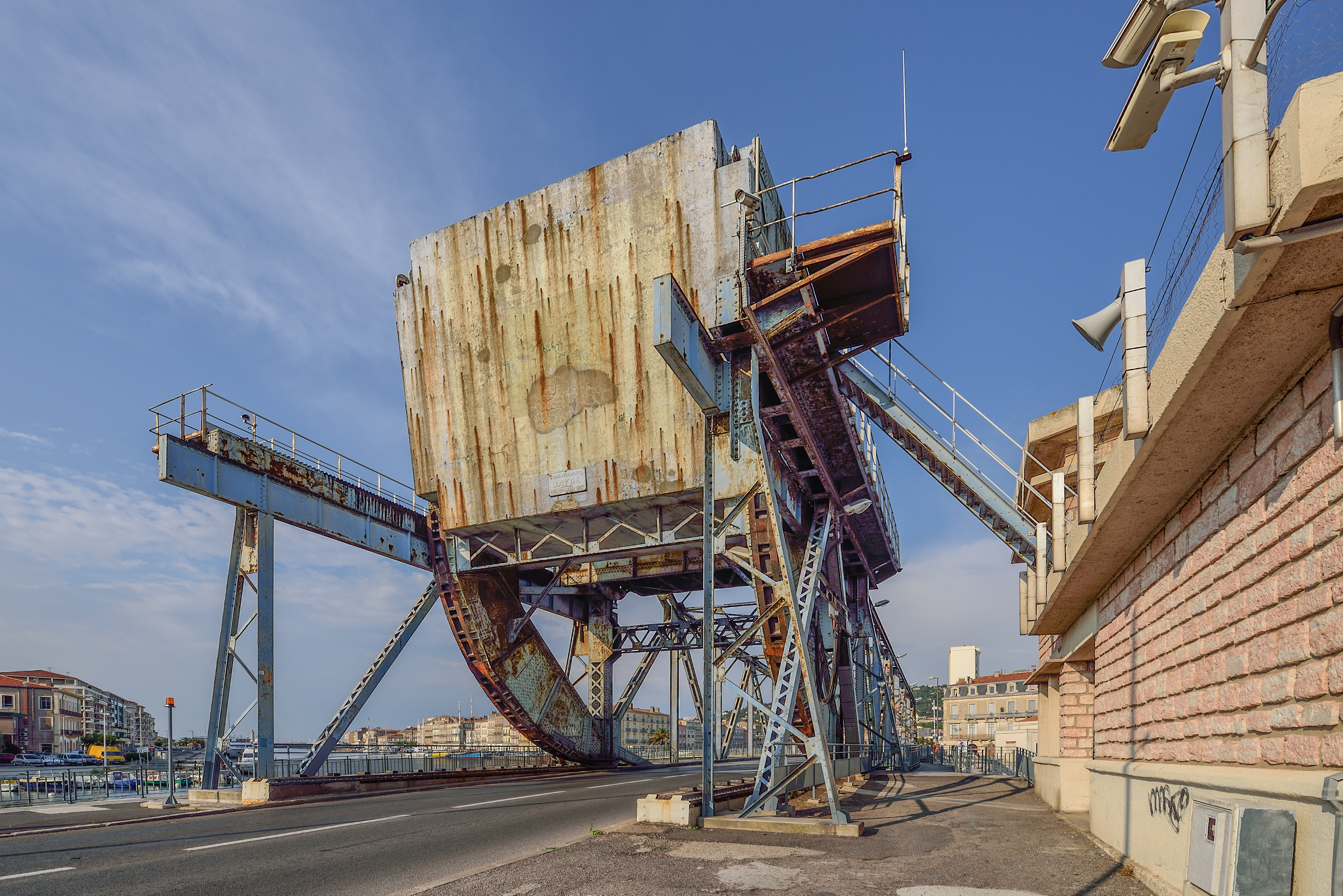 Tivoli Bridge (bascule bridge), in closed position, from the Moulins Embankment. The central part is the counterweight. Construction of the bridge between 1949 and 1951 by the Établissements Daydé. Sète, Hérault, France.